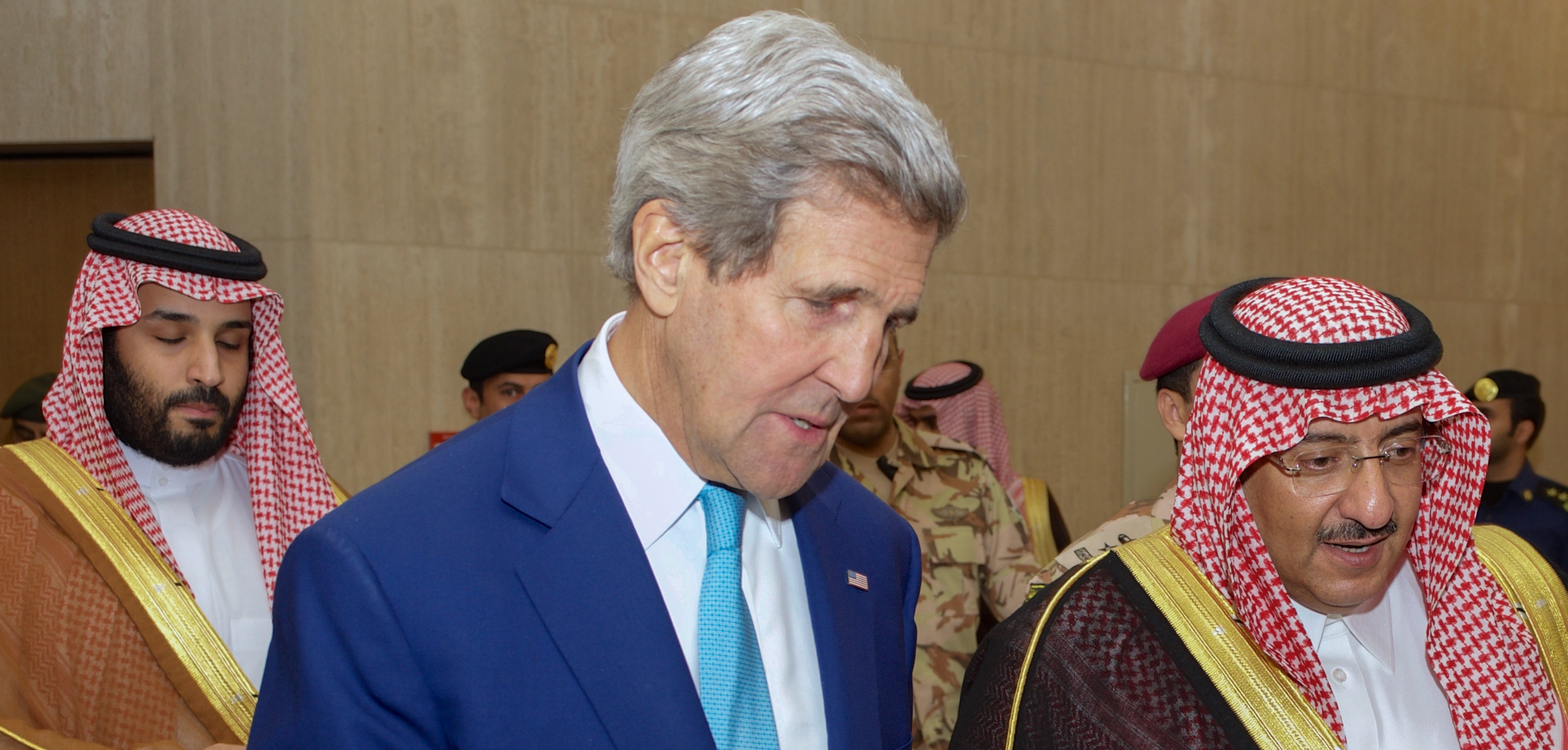 U.S. Secretary of State John Kerry walks with Crown Prince Mohammed bin Nayef, upon arriving at the Saudi Ministry of Interior in Riyadh, Saudi Arabia, on May 6, 2015, for a meeting and working dinner with him, Adel Al-Jubeir, the newly named Saudi Foreign Minister, and other government leaders including Mohammad bin Salman Al Saud. [State Department photo/ Public Domain]